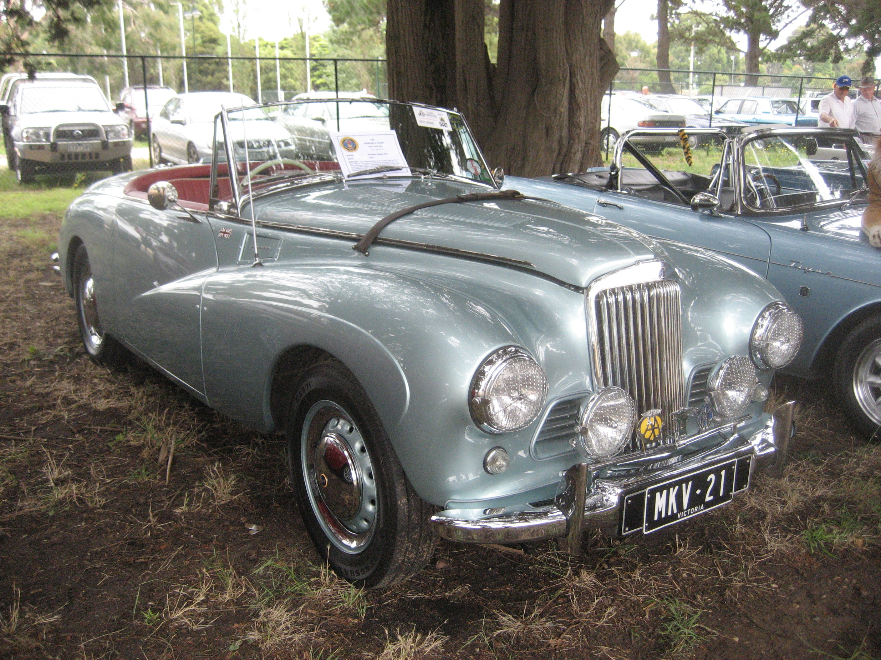 Derived from the Talbot 90. MkII built from 1950-52 (got air grilles either side of radiator.